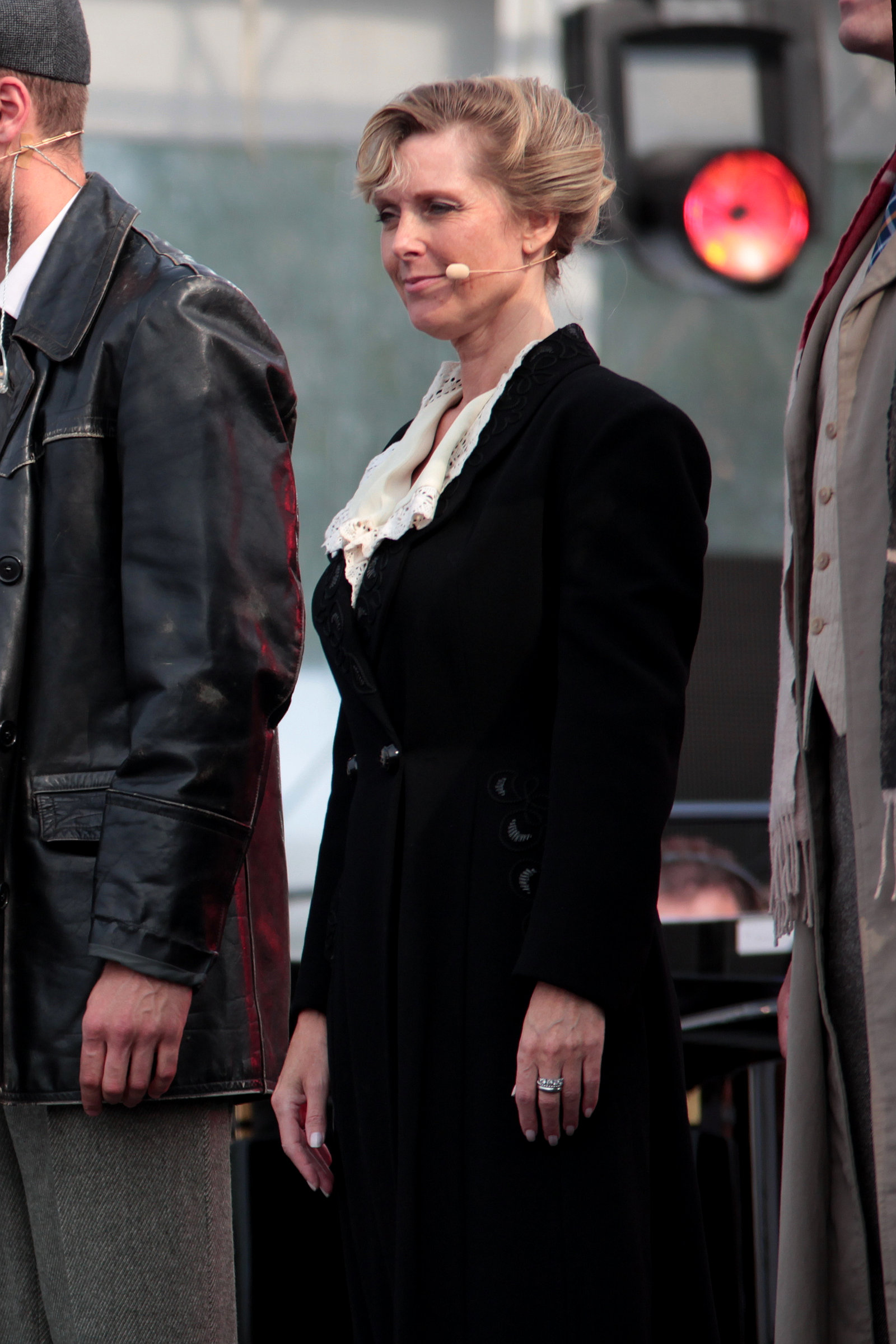 Joke de Kruijf as Hannie Schaft's mother (Het meisje met het rode haar) during the rehearsals for the musical singalong at the Uitmarkt 2015 in Amsterdam.